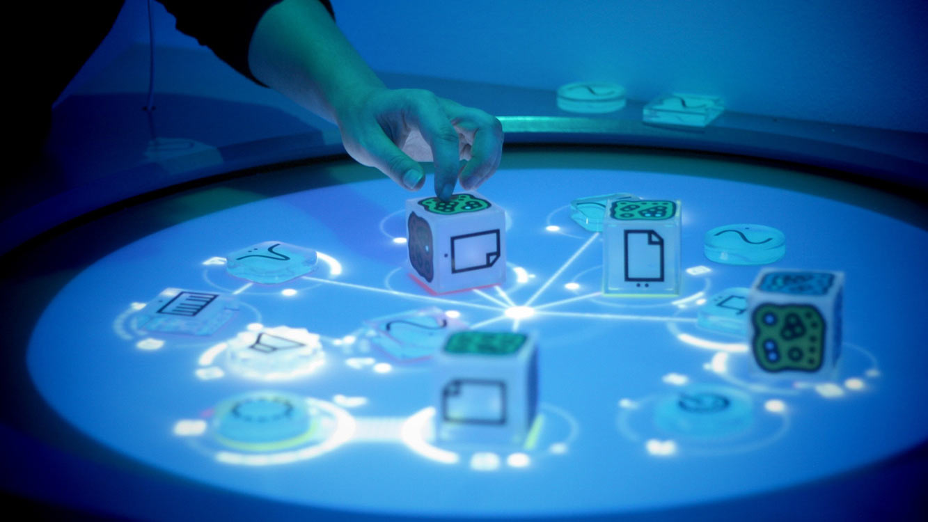 Game Science Center exhibit: Reactable